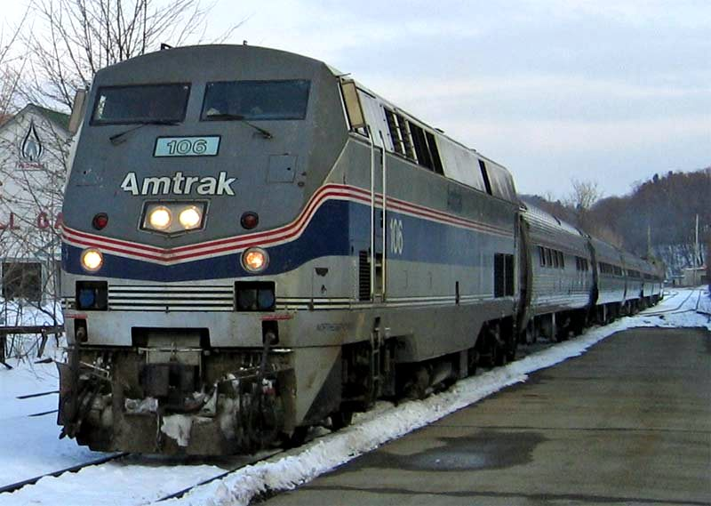 A northbound Vermonter at Brattleboro, Vermont